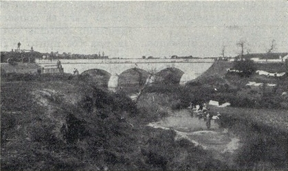 Bridge near the town of Ferreira do Alentejo, in the region of Alentejo, in Portugal. This image was published on the Vida Alentejana magazine no. 26, of the 12th March 1935, and scanned by the Hemeroteca Municipal de Lisboa.